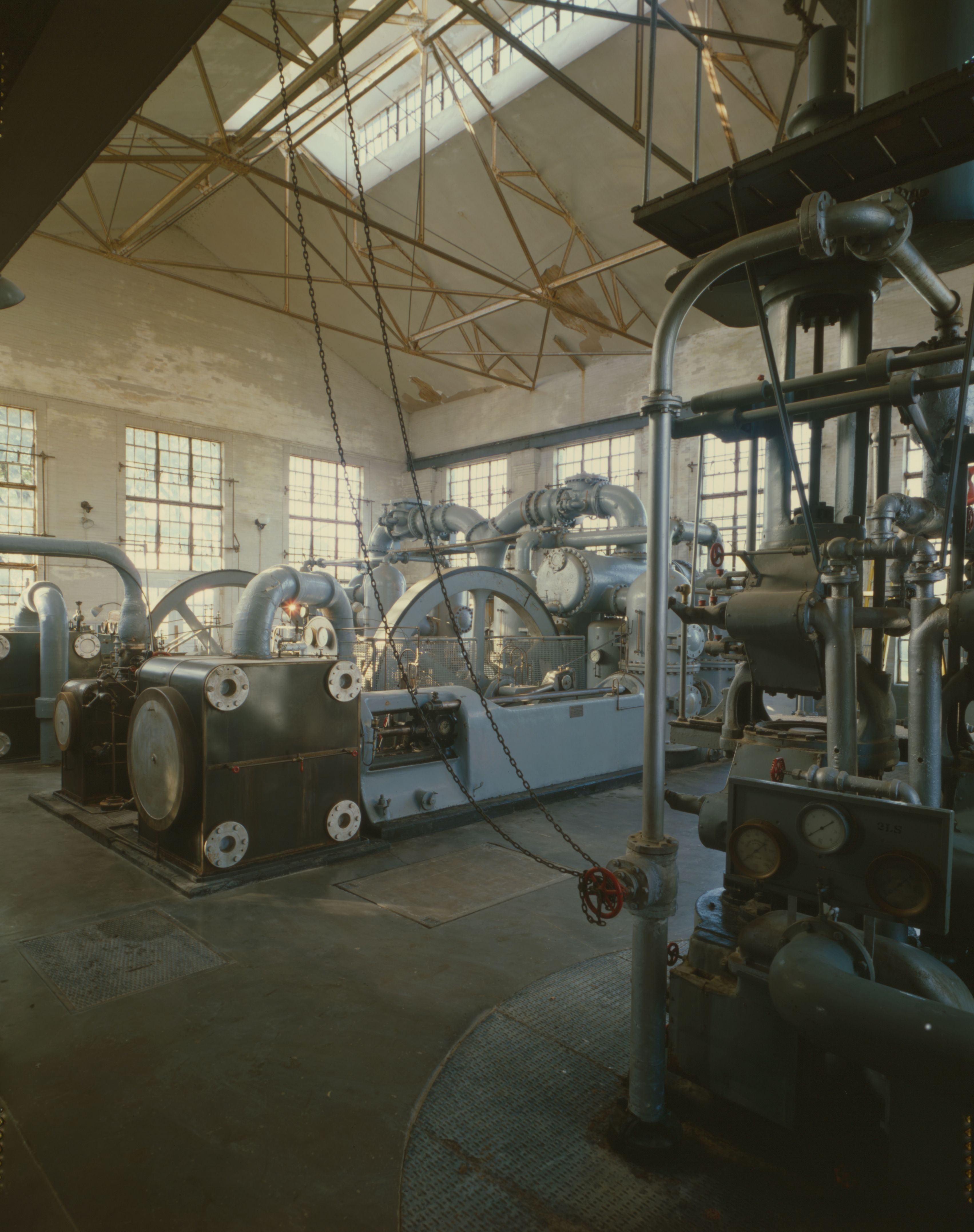 McNeil Street Pumping Station, McNeil Street & Cross Bayou, Shreveport (Caddo Parish, Louisiana)